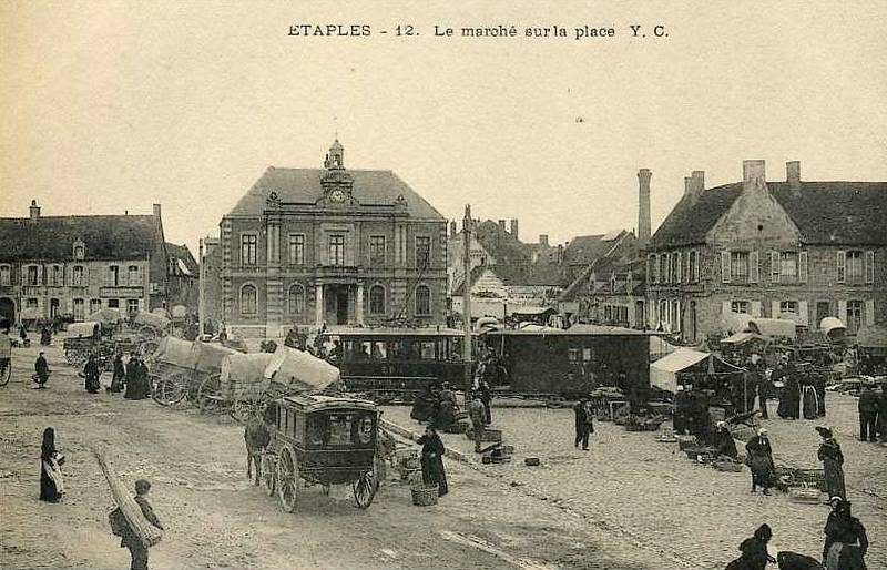 Tramway at Etaples